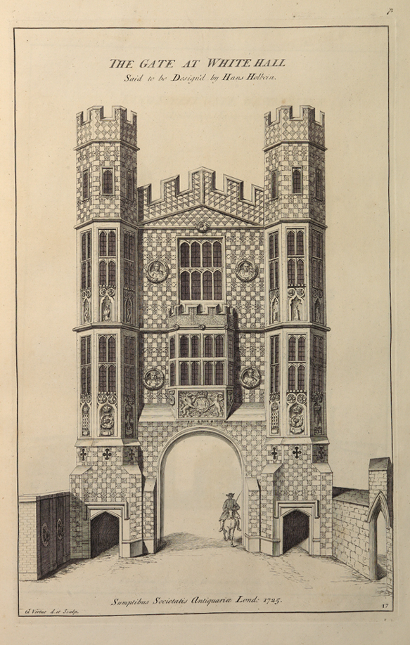 double page illustration from a series, caption: "The Gate at Whitehall, said to be designed by Hans Holbein" and a description at source that says it is the North Gate (Plate 17)